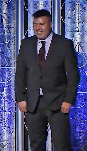 Art Directors Guild 18th Award Show Chapter 24 June Squibb June Squibb presents the award for Contemporary Feature Film to the winner Production Designer K.K. Barrett for HER; Barrett calls out set decorator Gene Serdena.